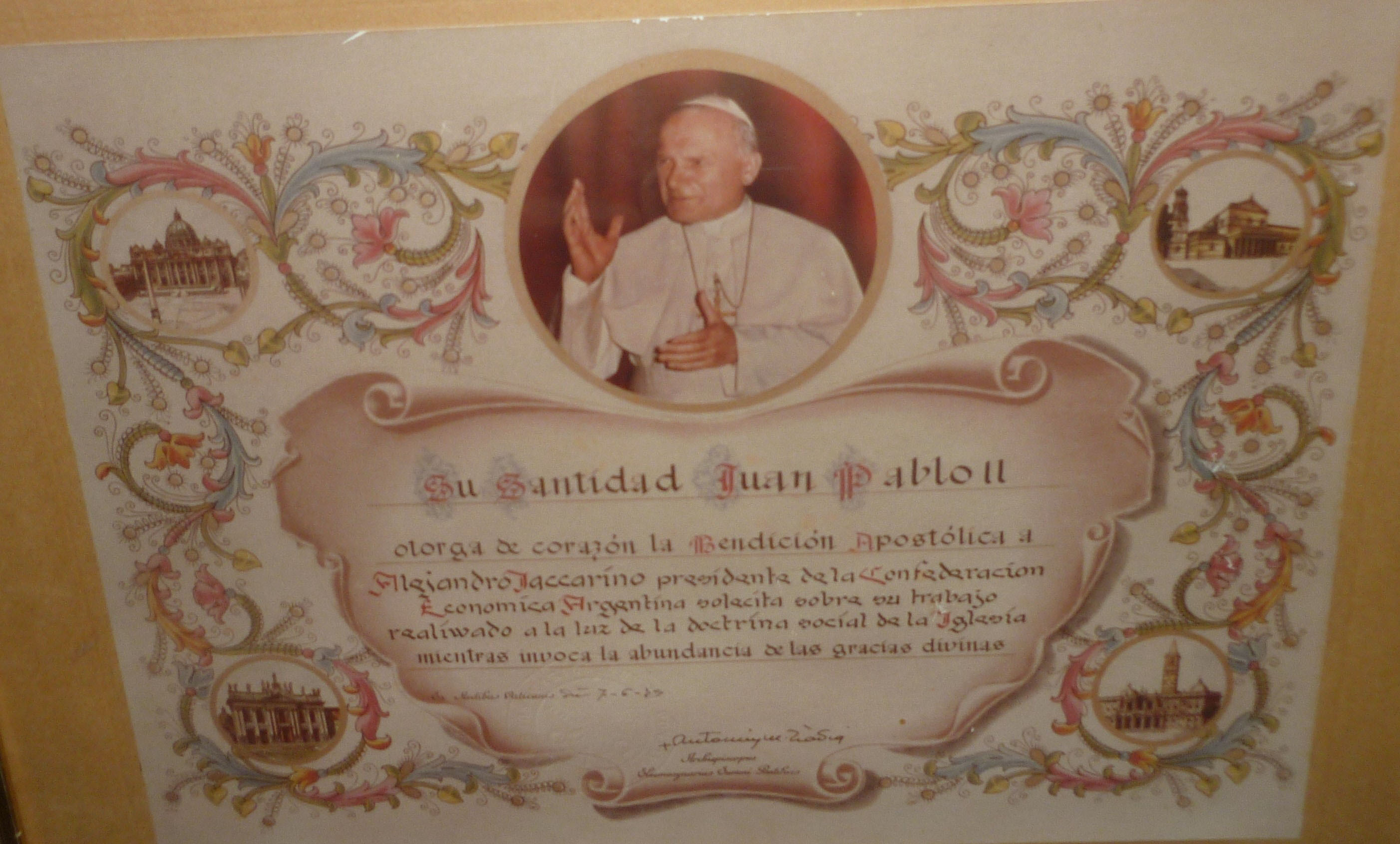 Papal blessing Alejandro Iaccarino